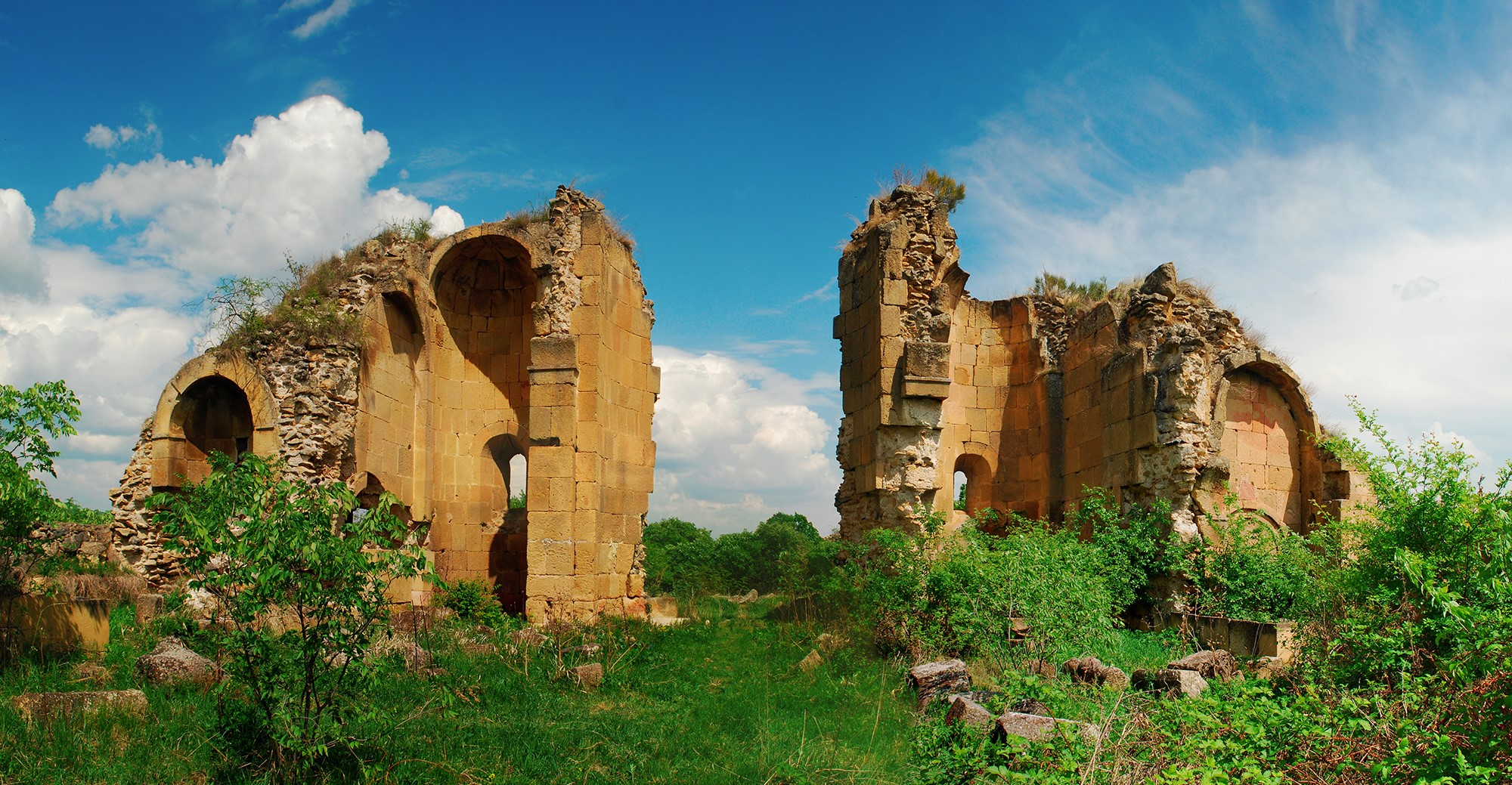 VIII century Samshvilde Sioni church